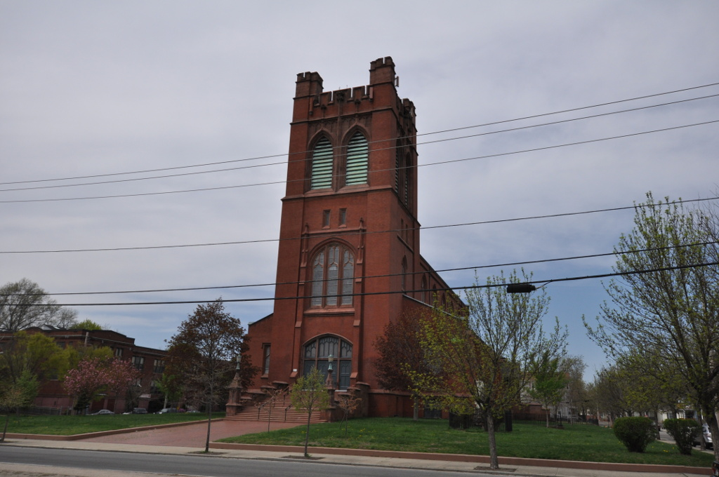 St. Michael's Roman Catholic Church, Convent, Rectory, and School, Providence, Rhode Island. The church.